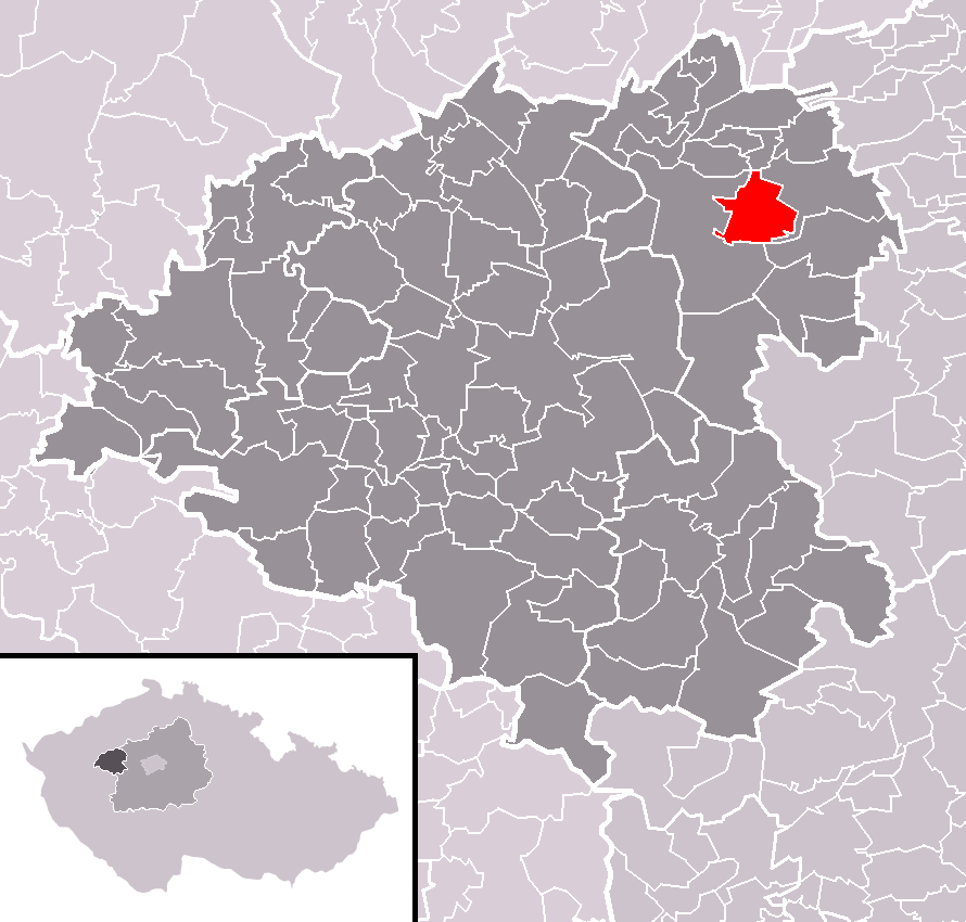 Location of Třtice municipality within Rakovník District and (identical) administrative area of Rakovník as a Municipality with Extended Competence.